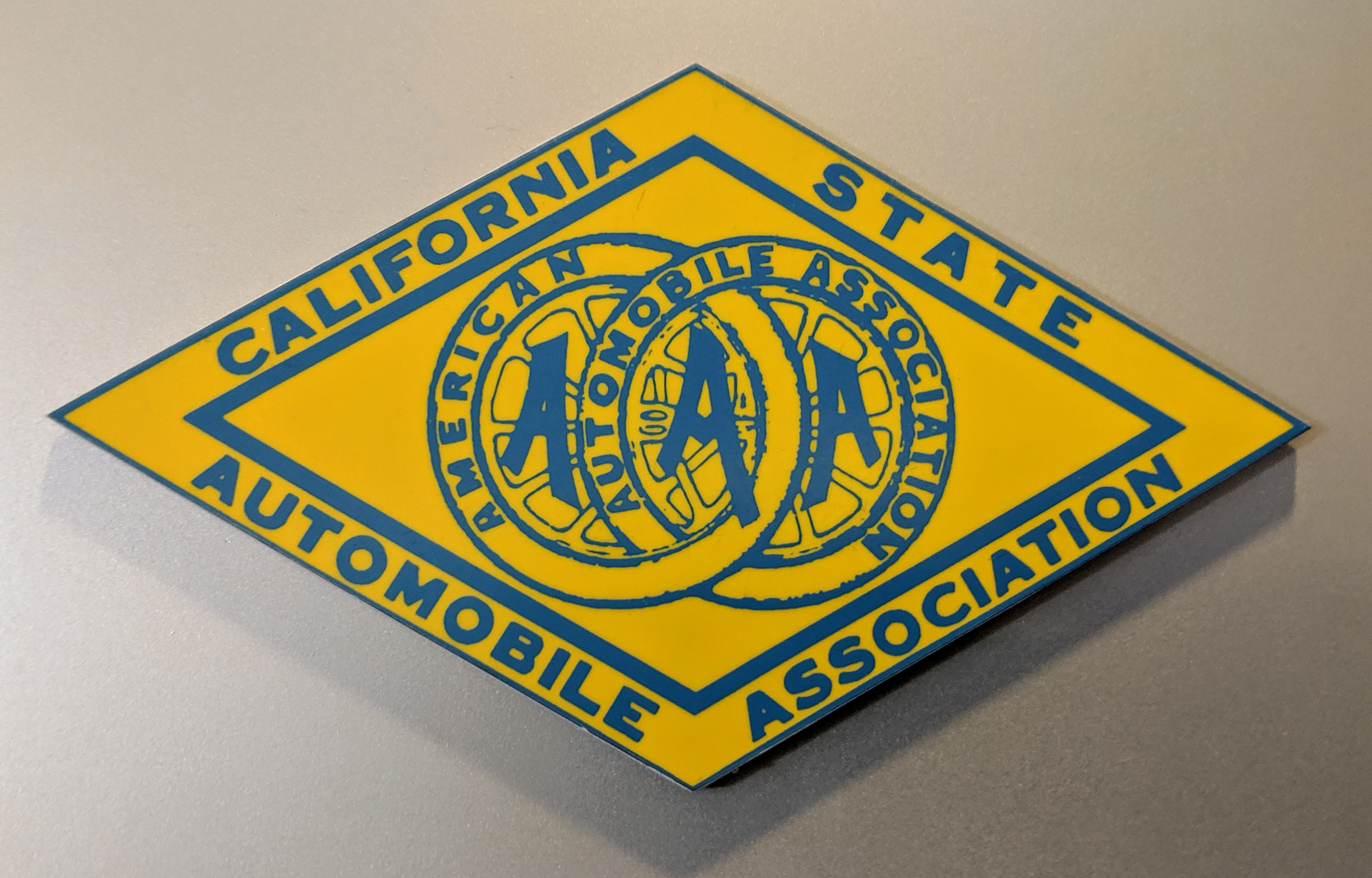 The original logo of the California State Automobile Association, first published in 1907.